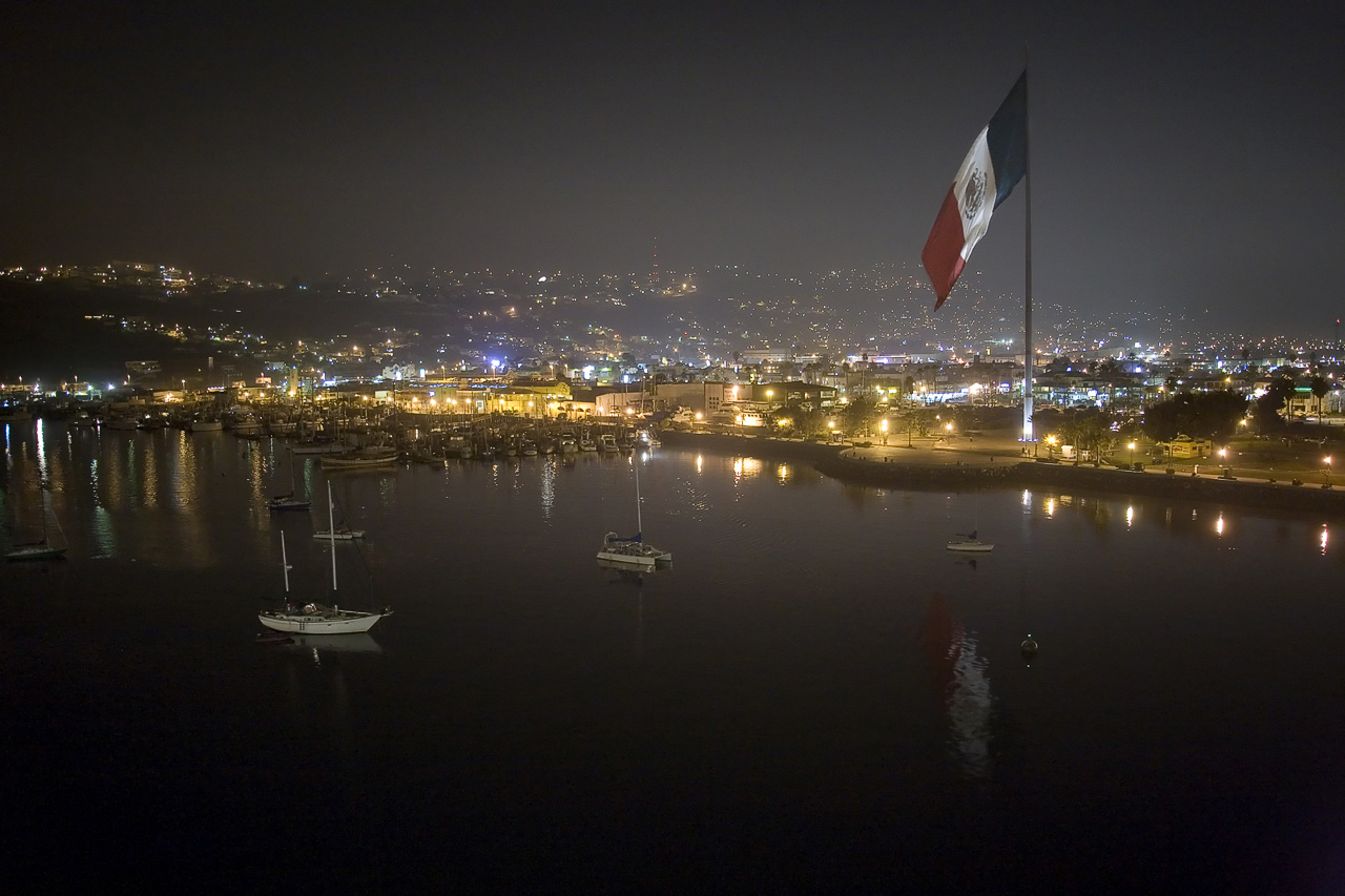 Taken from the bow of the MS Paradise cruise liner in Ensenada, Mexico.